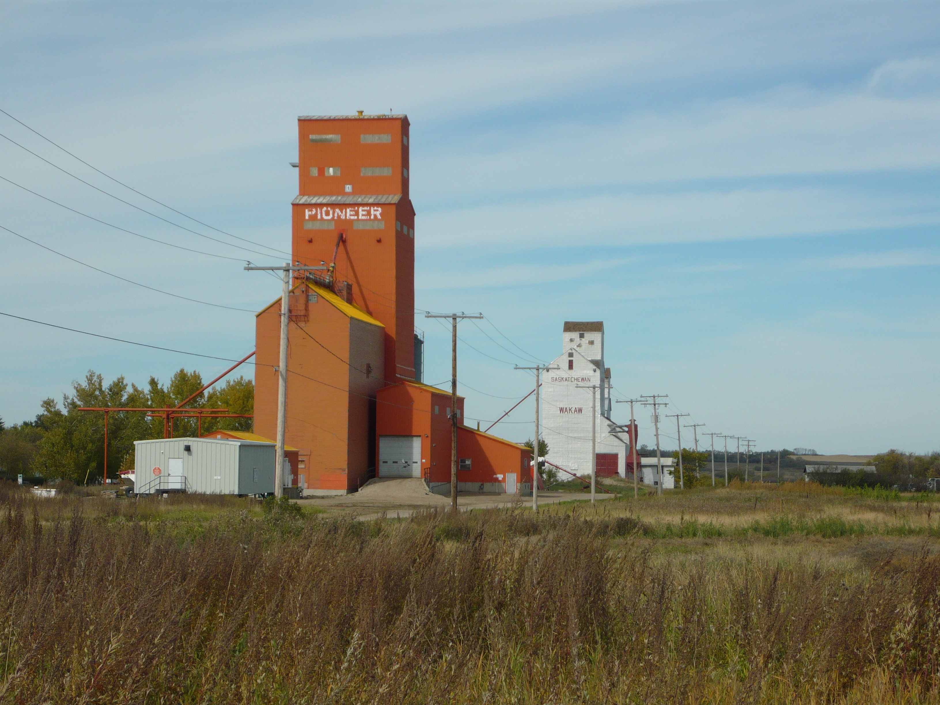 Grain elevators in Wakaw, Saskatchewan, Canada, looking northward from intersection of Elevator Road (also known as 1st Avenue East) and 4th Street South.